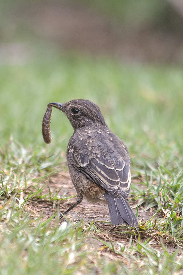 Pied Bush Chat Saxicola caprata, female, taken from Nilgiris